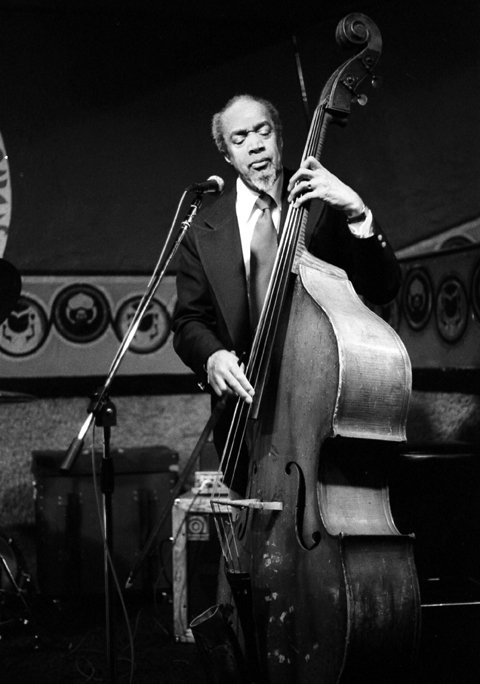 Slam Stewart at Keystone Korner, San Francisco CA 4/28/81. Playing with Illinois Jacquet. Photo by Brian McMillen /